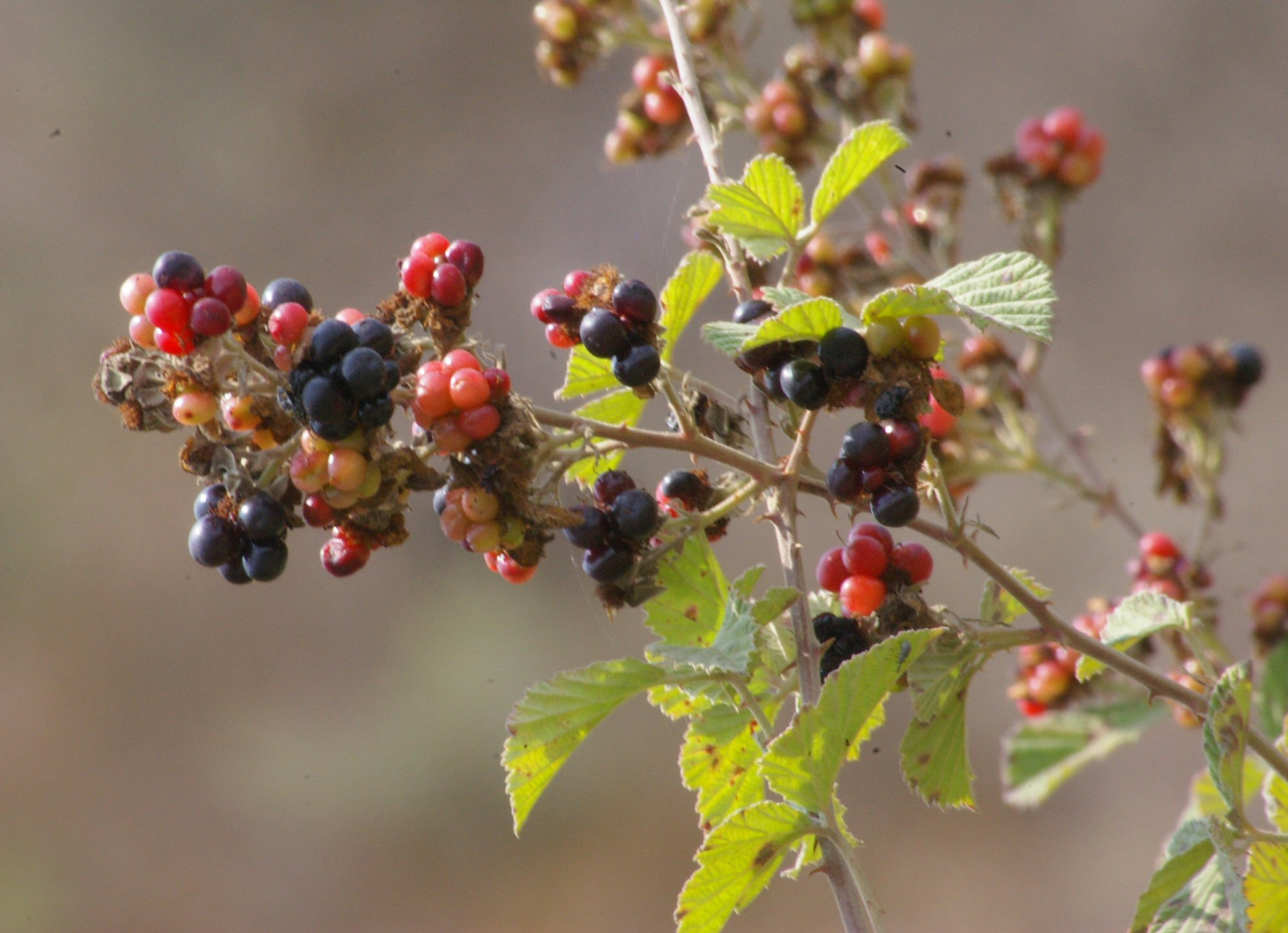 Rubus sanguineus, wild raspberry, in a rivulet in the eastern Carmel hills.